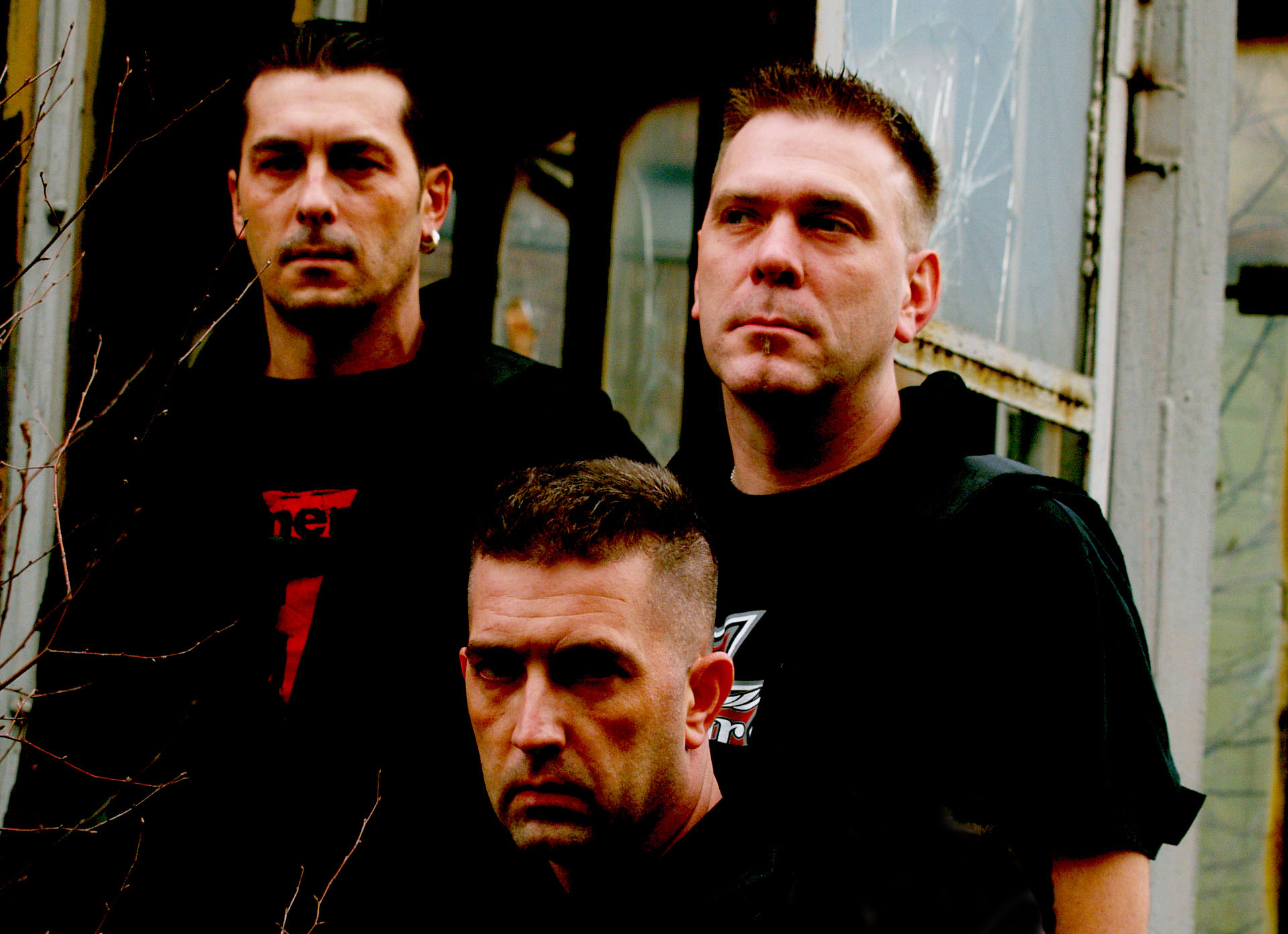 Promotion picture of the german industrial band Tyske Ludder 2007